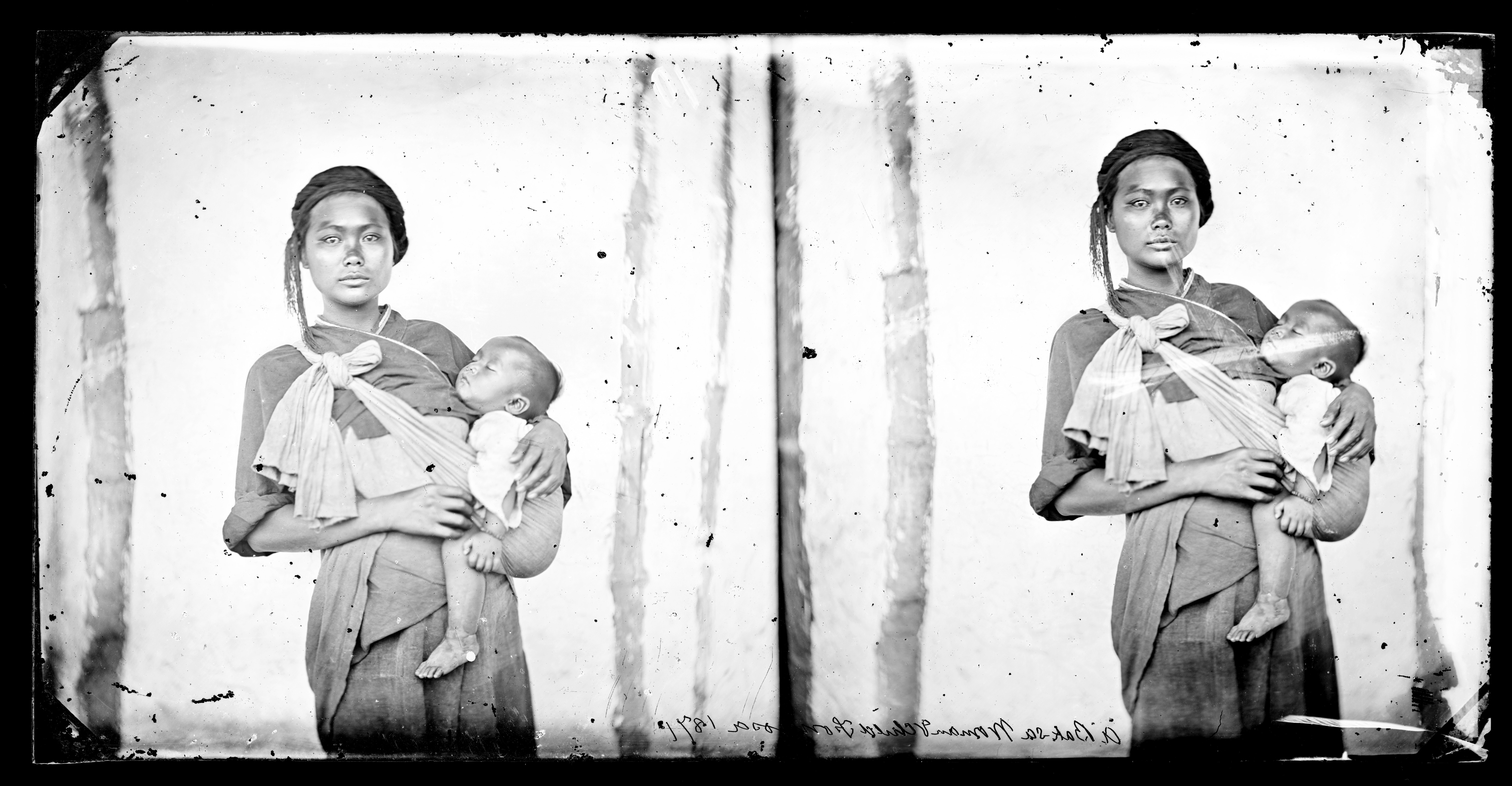 Baksa, Formosa [Taiwan]. Photograph by John Thomson, 1871. Iconographic Collections Keywords: J. Thomson